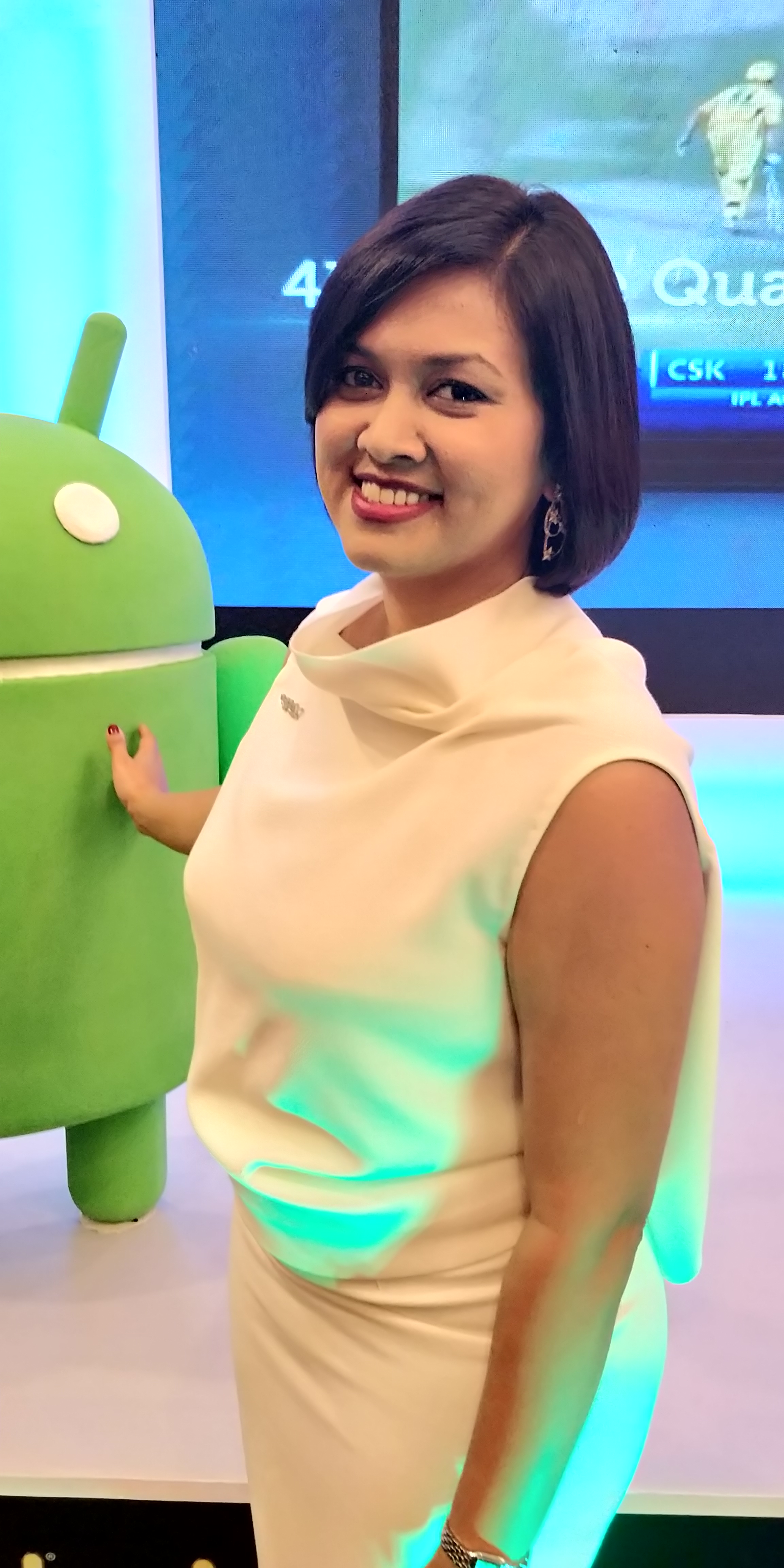 Devita Saraf is an Indian business woman, best known for founding Vu Technologies, where she serves as CEO and design head